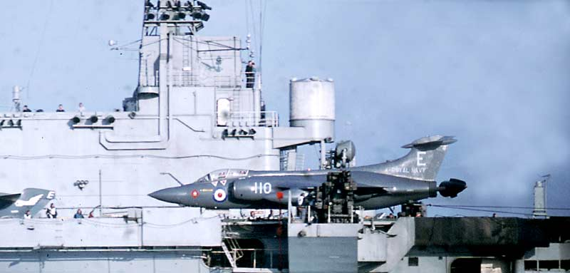 A Royal Navy Blackburn Buccaneer S.2 of 800 Naval Air Squadron having just landed on the airctaft carrier HMS Eagle (R05) in the Mediterranean Sea in January 1970.